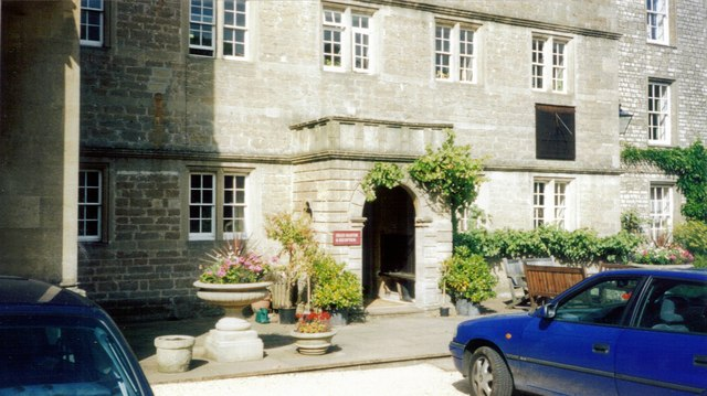 Downside School